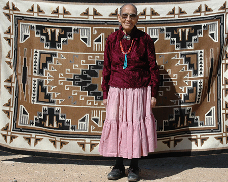 Clara Sherman, recipient of the 2006 Governor's Award for Excellence in the Arts, is one of the artists whose work is available at the historic Toadlena Trading Post on New Mexico Arts' Fiber Arts Trail.